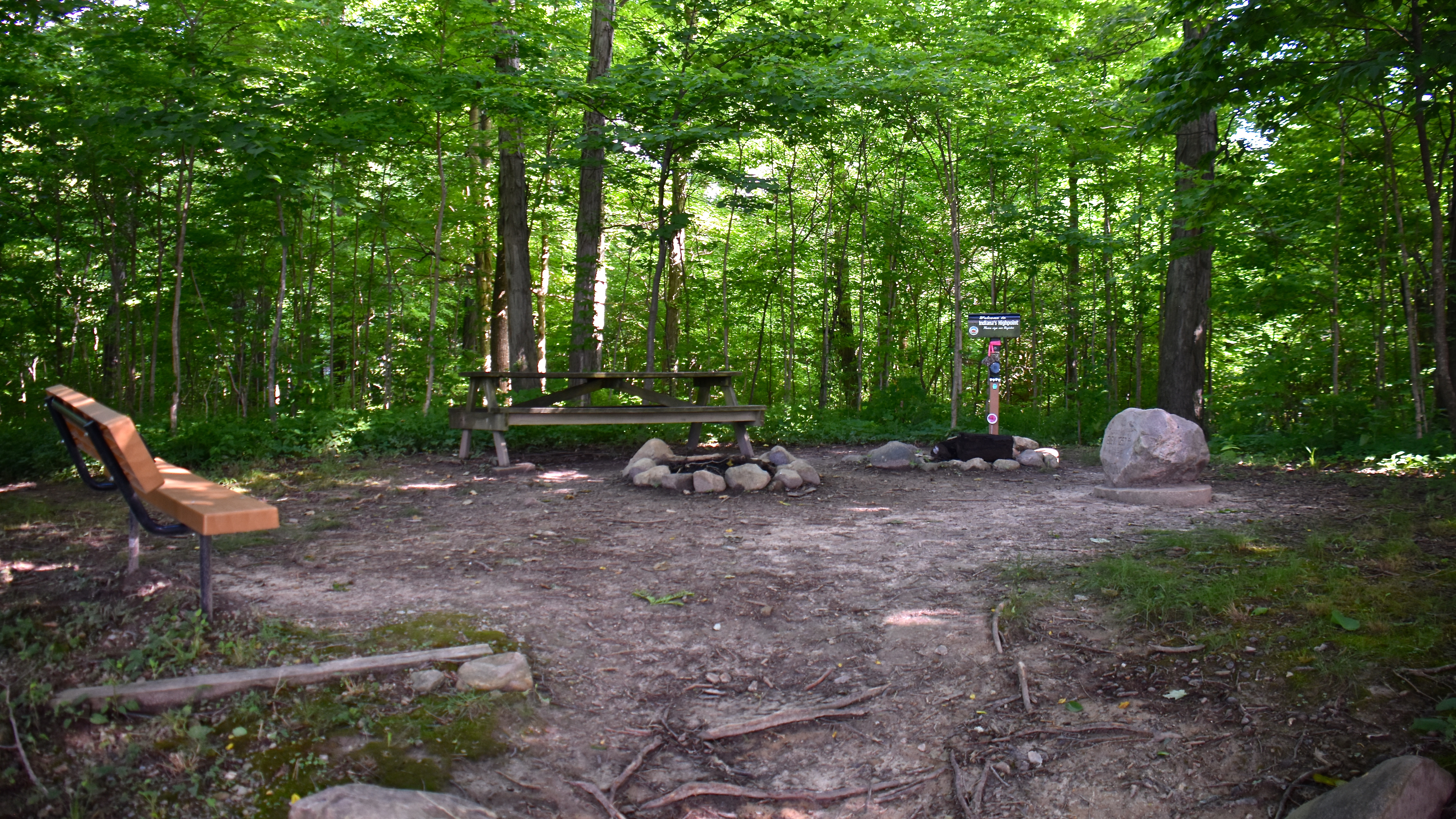 The summit area of Hoosier Hill showing the improvements over the years including a bench, mailbox register, and the elevation stone.